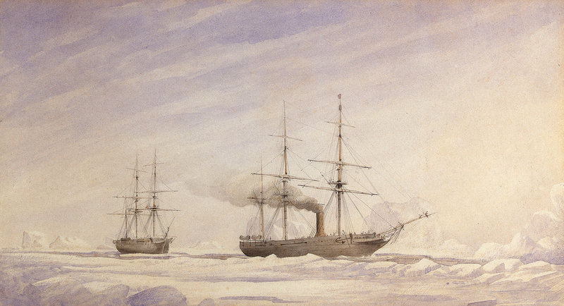 'Phoenix' and 'Breadalbane' in Melville Bay, Greenland.